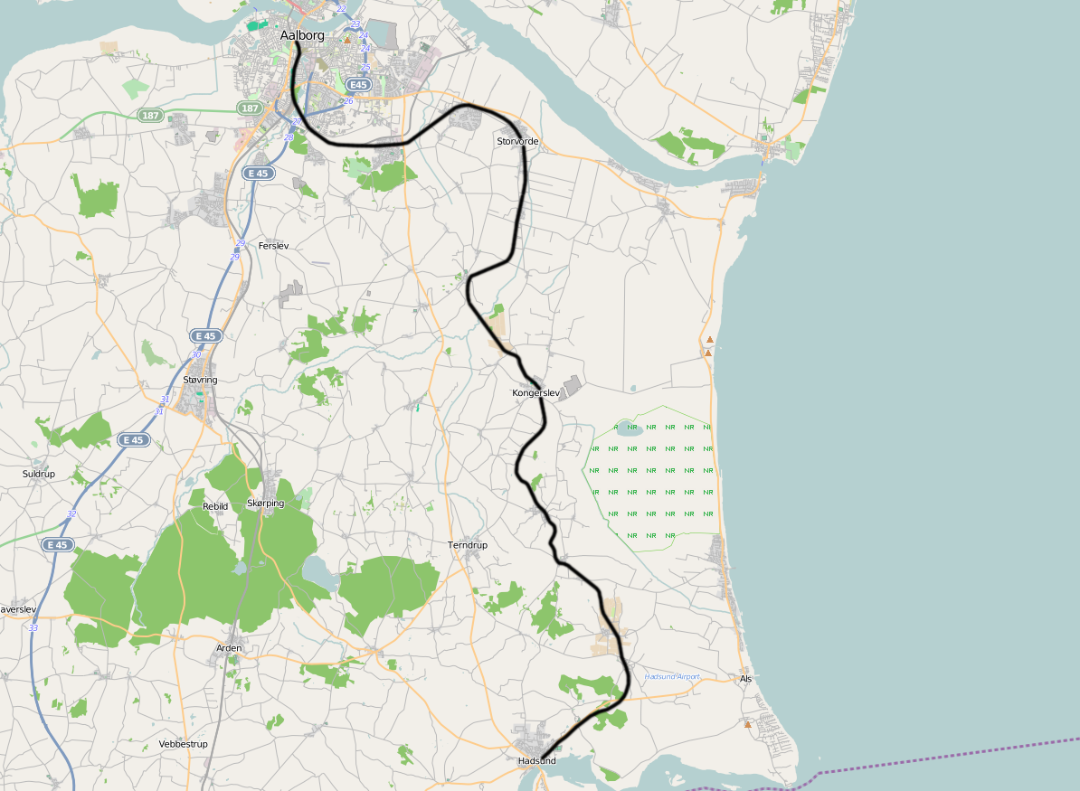 Railway line Aalborg - Hadsund